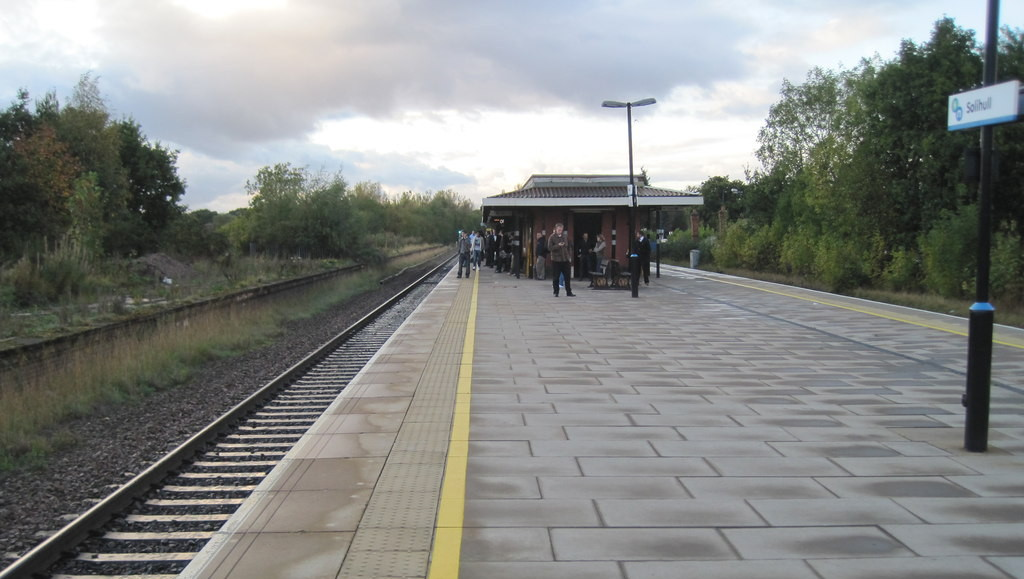 Solihull railway station Opened in 1852 by the Great Western Railway on its line from Oxford to Birmingham Snow Hill. View north west towards Olton and Birmingham. The disused island platform to the left shows this used to be a four platform station.